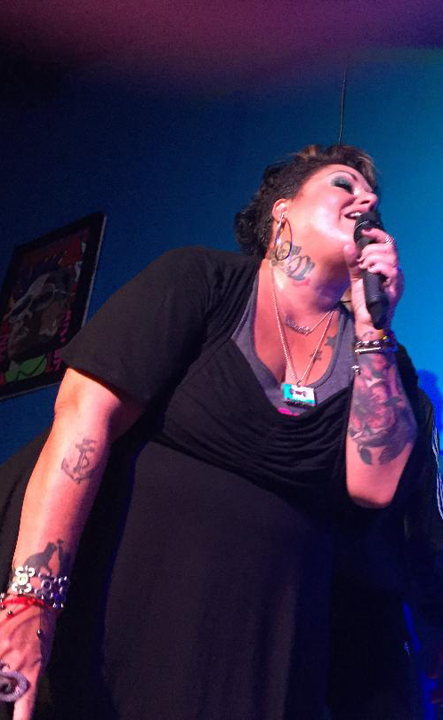 debbie deb performing live in tampa florida 2017